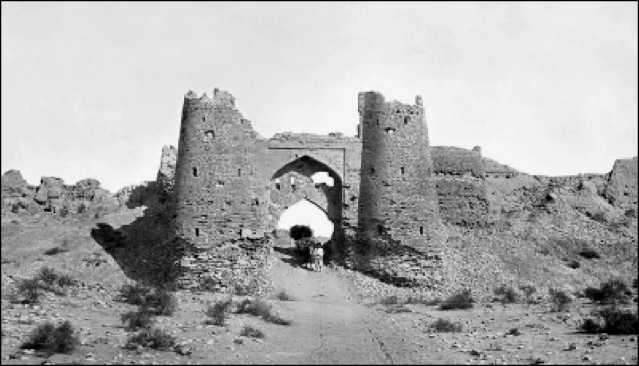 old Merv in Turkmenistan